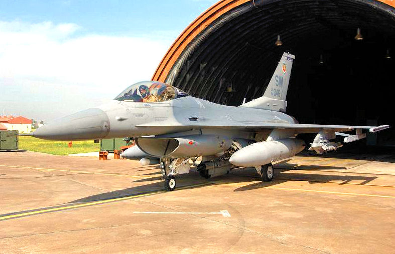 USAF F-16C block 50 #94-0046 assigned to the 55th EFS is piloted by Capt. Russ Shinn, who taxies his aircraft from a shelter before taking off from Incirlik AB on April 12th, 2003. Shaw AFB personnel and aircraft are redeploying home after 12 successful years of enforcing the no fly zone over northern Iraq, in support of ONW. [USAF photo by Amn. Joseph Thompson]